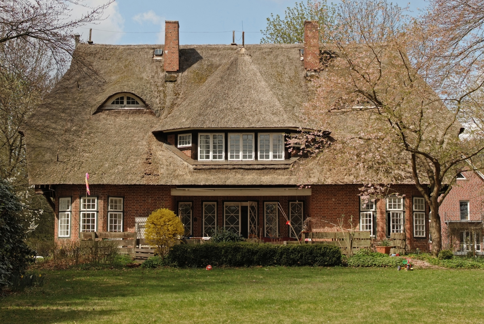 Cultural monument No. 911 in Hamburg, Germany